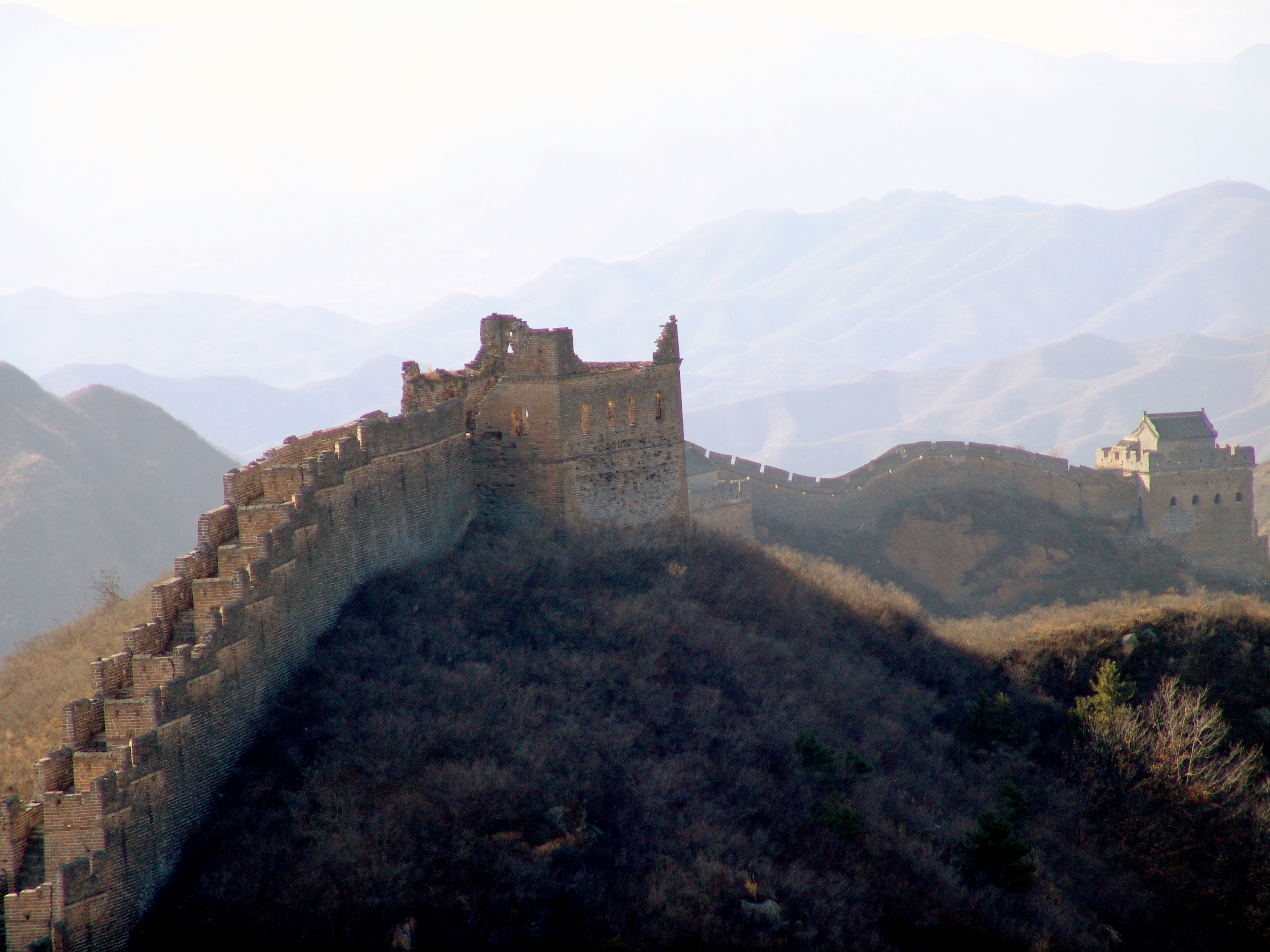 A section of the Great Wall of China between Simatai and Jinshanling